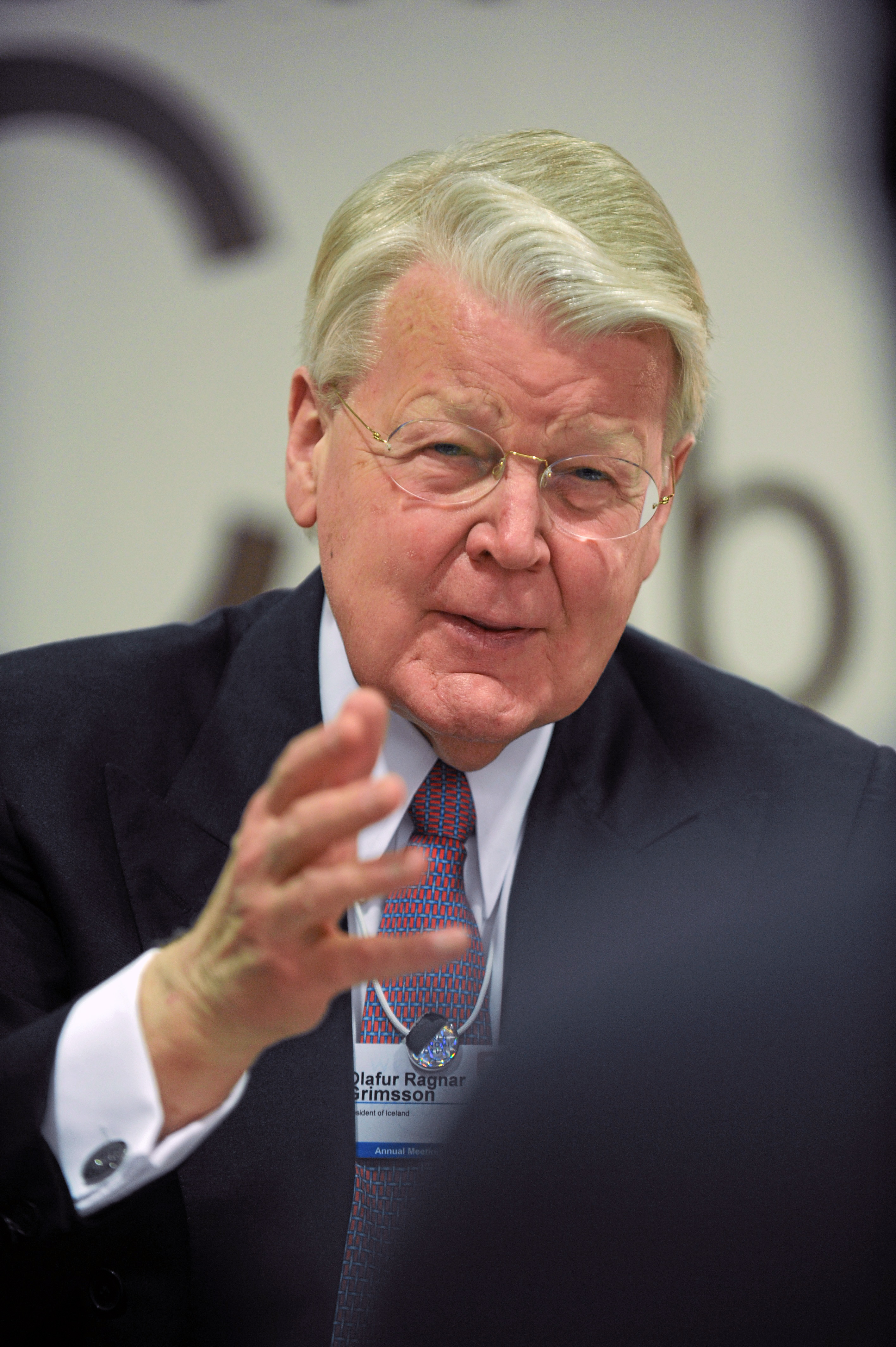 DAVOS/SWITZERLAND, 29JAN11 - Olafur Ragnar Grimsson, President of Iceland, Office of the President of Iceland captured during the session 'Oceans' at the hotel Rinerhorn during the Annual Meeting 2011 of the World Economic Forum in Davos, Switzerland, on January 29, 2011.. . Copyright by World Economic Forum. by Michael Wuertenberg